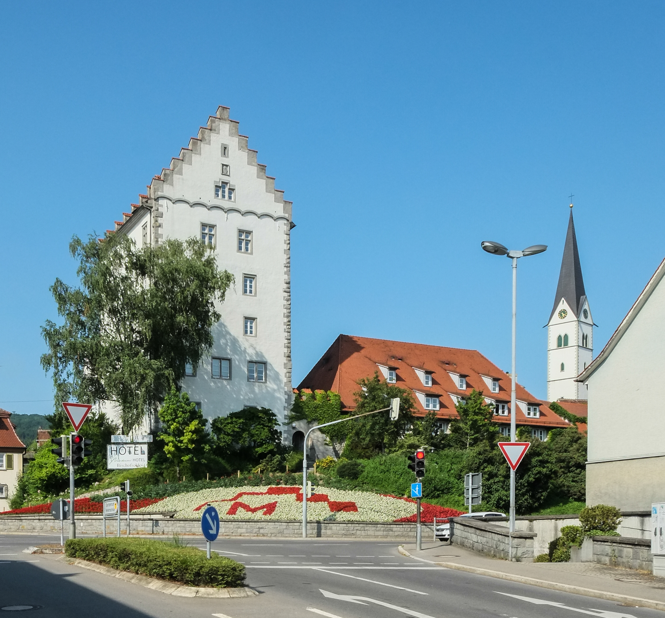 Chateau Bischofschloss, Markdorf, county Bodenseekreis, Baden Wurttemberg, Lake Constance, Germany